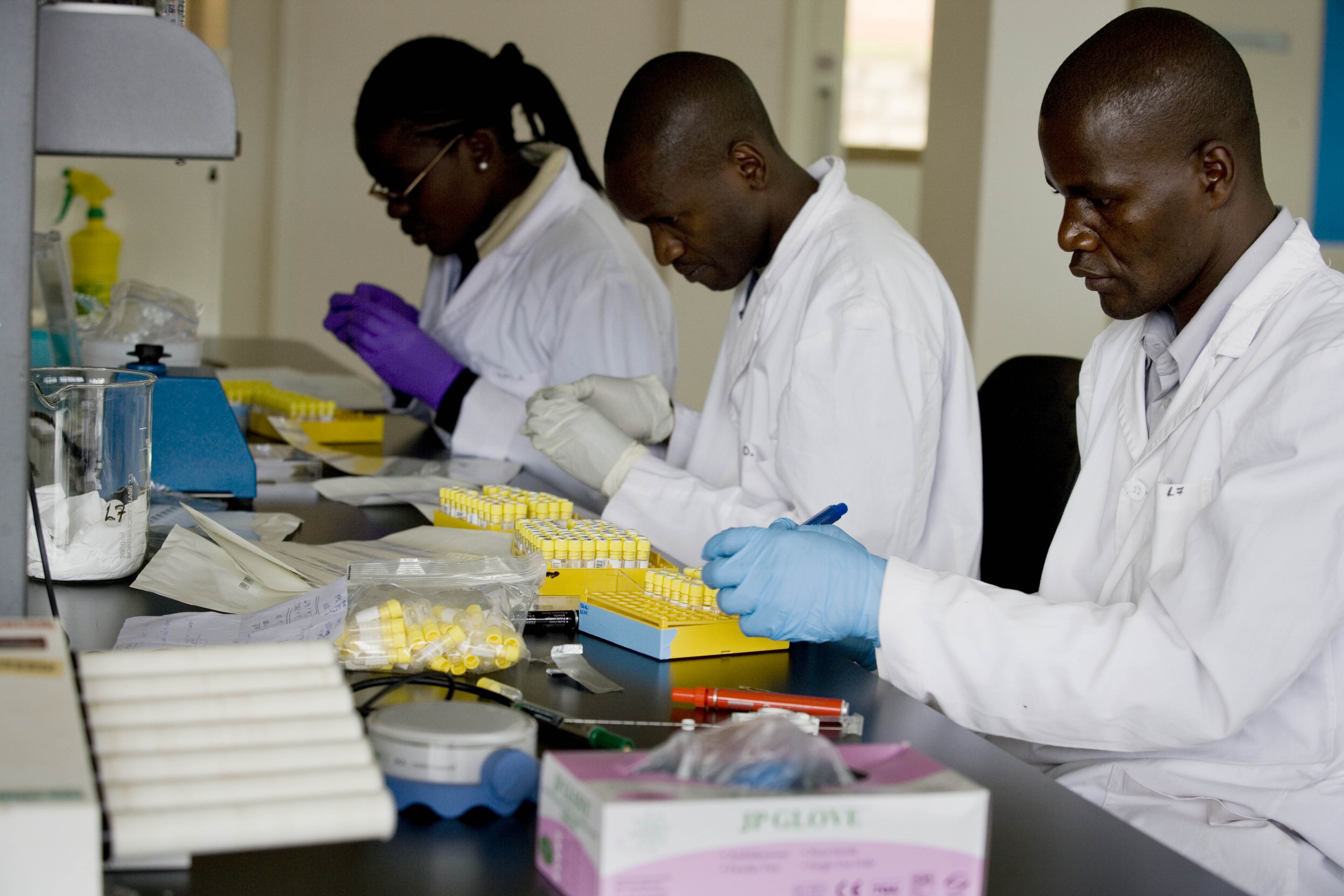 Scientists work in a laboratory at the International Livestock Research Institute in Nairobi, Kenya. Australia provides funding to the Institute through the Australian Centre for International Agricultural Research (ACIAR), to improve African food security.